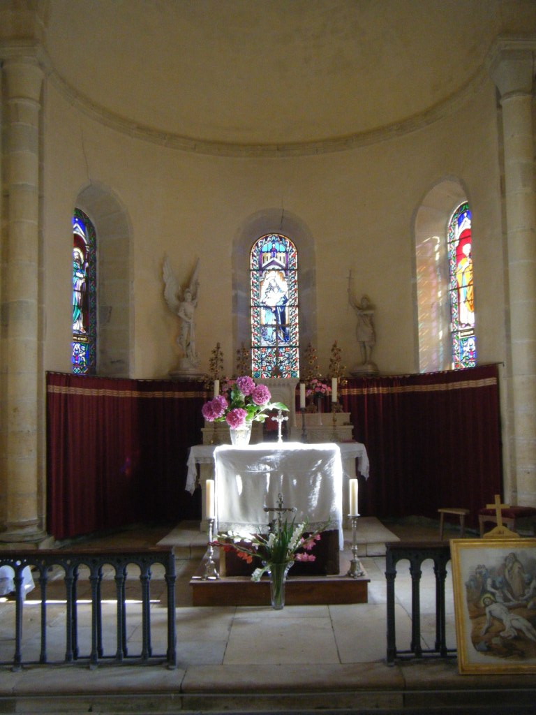 Inrerior of Champlin's church